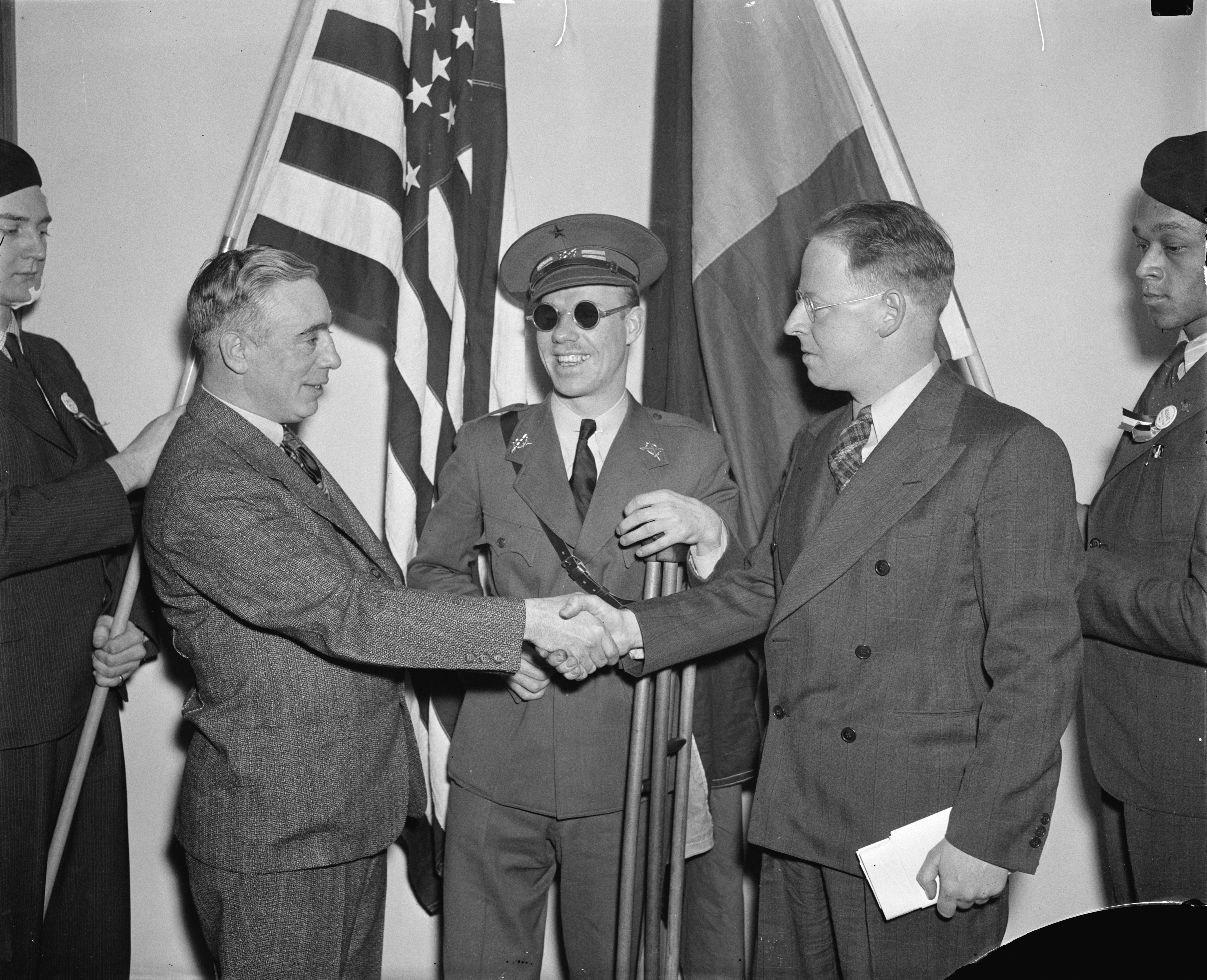 Communists get together. Washington, D.C., Feb. 12. Americans, all of whom fought and many wounded while fighting for the Loyalists in Spain, met today in Washington at the First National Conference of the Veterans of the Abraham Lincoln Brigade, left to right: Francis J. Gorman, President of the United Textile Workers of America; Lieut. Robert Raven, wounded and blinded in the Spanish War; and Commander Paul Burns of Boston Commander of the Lincoln Brigade.